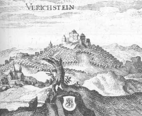 This is a scan of the historical document: Title: Ulrichstein - Topographia Hassiae language: german